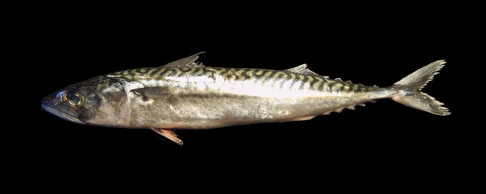 Makrele (Scomber scombrus)